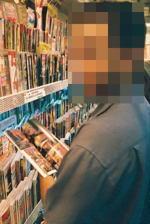 Spanish customer, in a comic shop